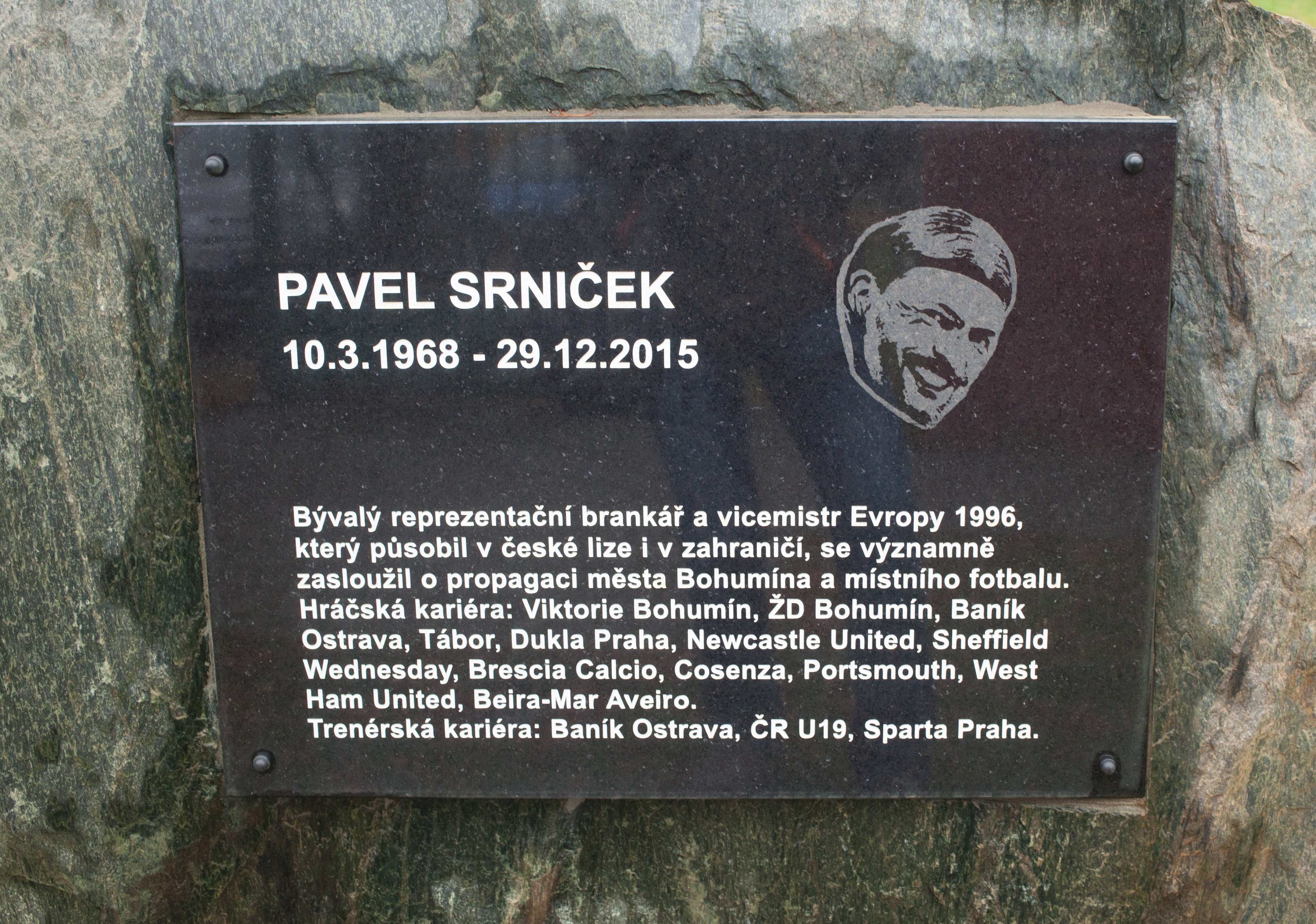 Playque to Czech goalkeeper Pavel Srniček on venue of FK Bospor Bohumín, Karviná District, Moravian-Silesian Region, Czech Republic